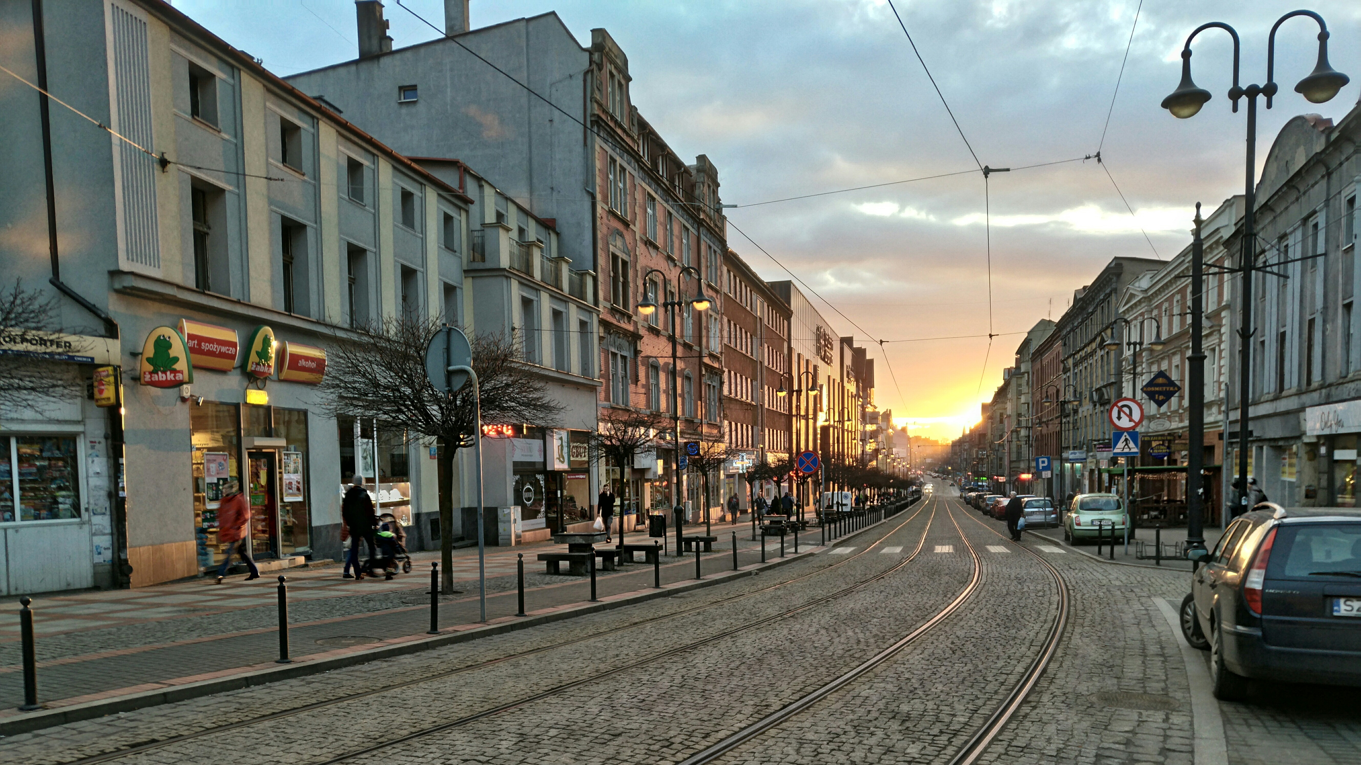 Wolności Street, Zabrze (March 2018)